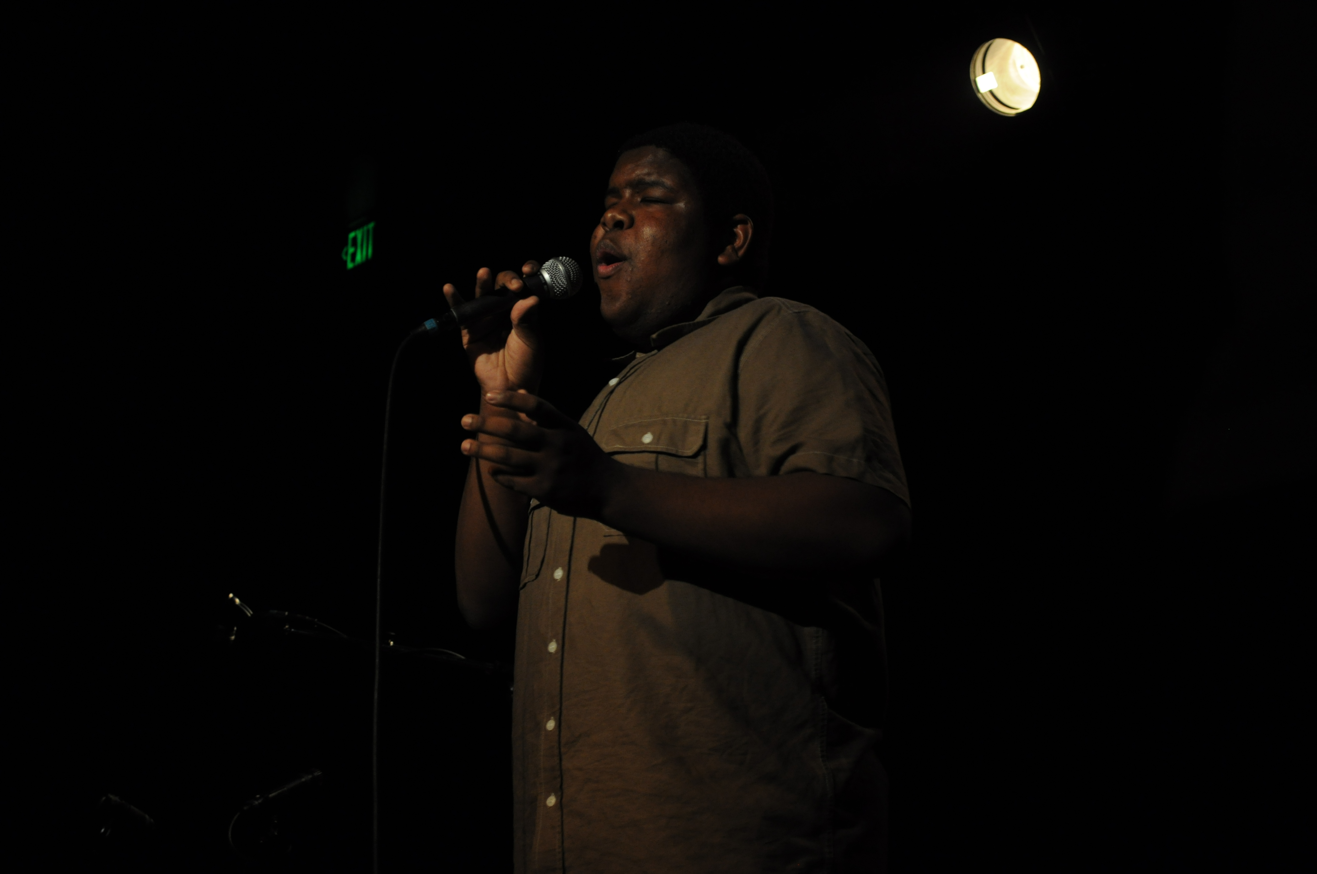 Seattle vocalist extraordinaire Ray Dalton performing at Neumos, Capitol Hill, Seattle, Washington, where he joined the rapper Sol onstage.